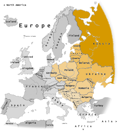 Pre-1989 division between the "West" (grey) and "Eastern Bloc" (orange) superimposed on current borders: Russia (dark orange) other countries formerly part of the USSR (medium orange) members of the Warsaw Pact (light orange) other former Communist regimes not aligned with Moscow (lightest orange)